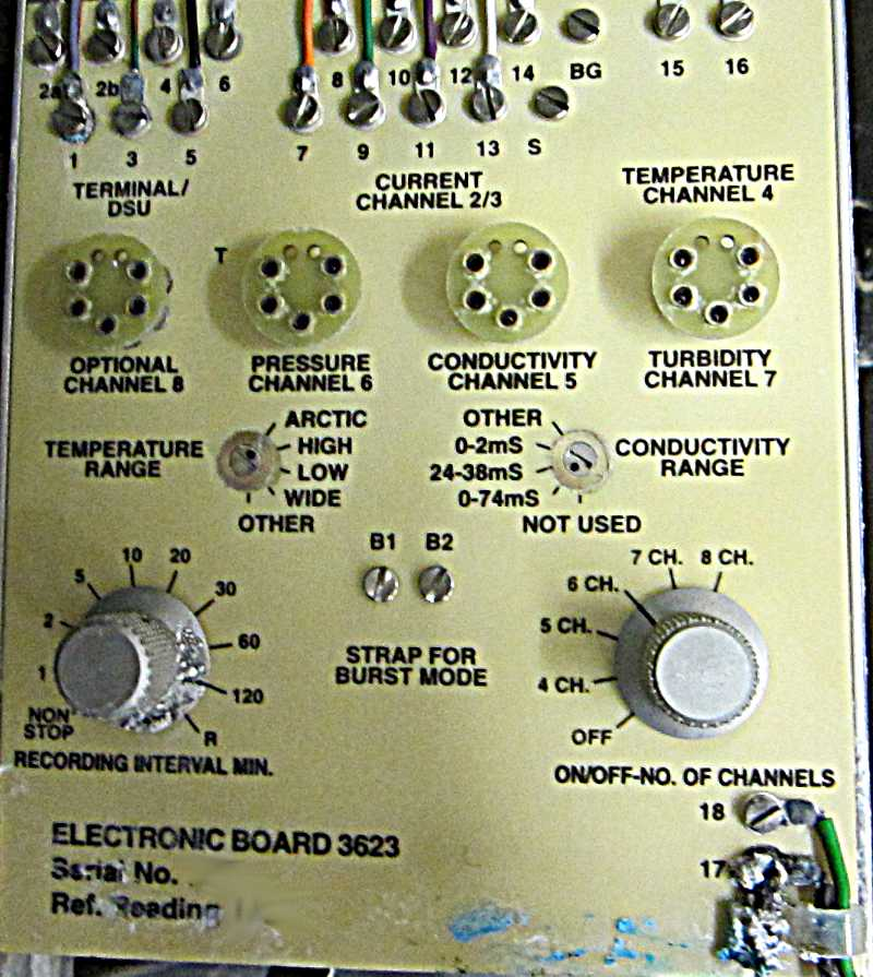 Zoom-In of a Data Storage Unit of an old Rotor Current Meter "Aanderaa RCM 8"